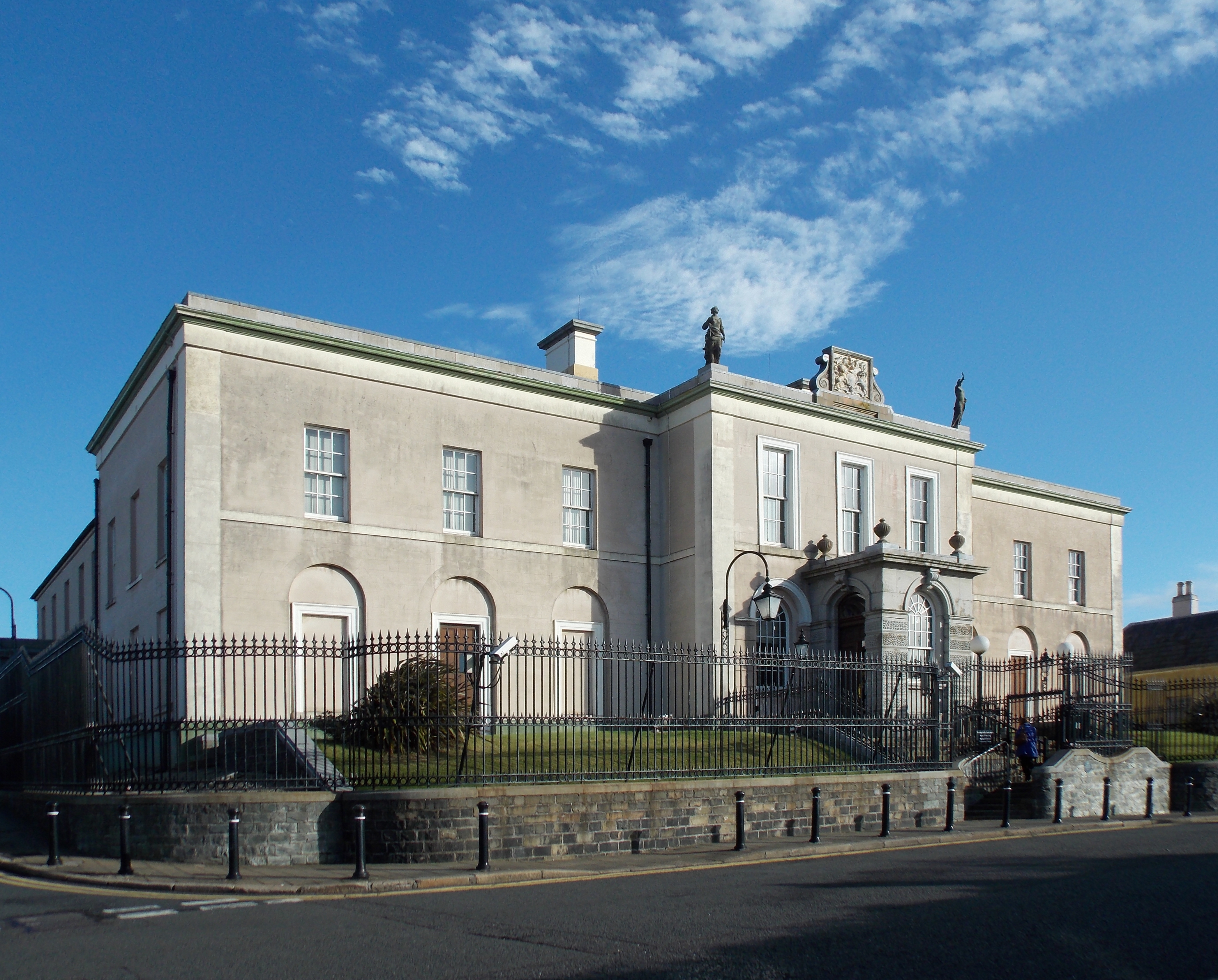 Court House, English Street Downpatrick County Down